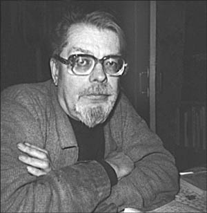 Russian linguist Andrei Korolev (1944-1999)